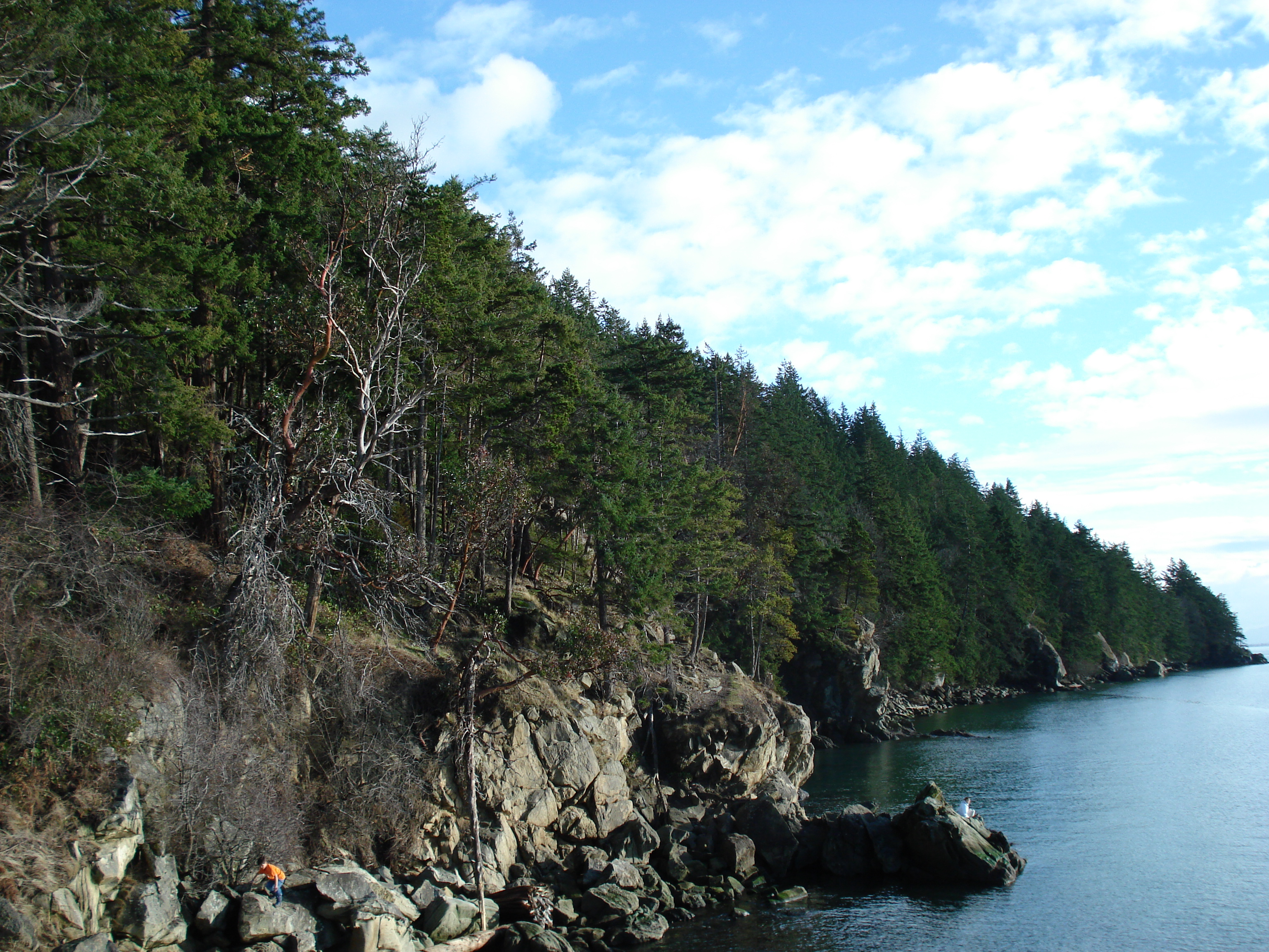 An example of the rocky coastline at Larrabee State Park in Washington state.